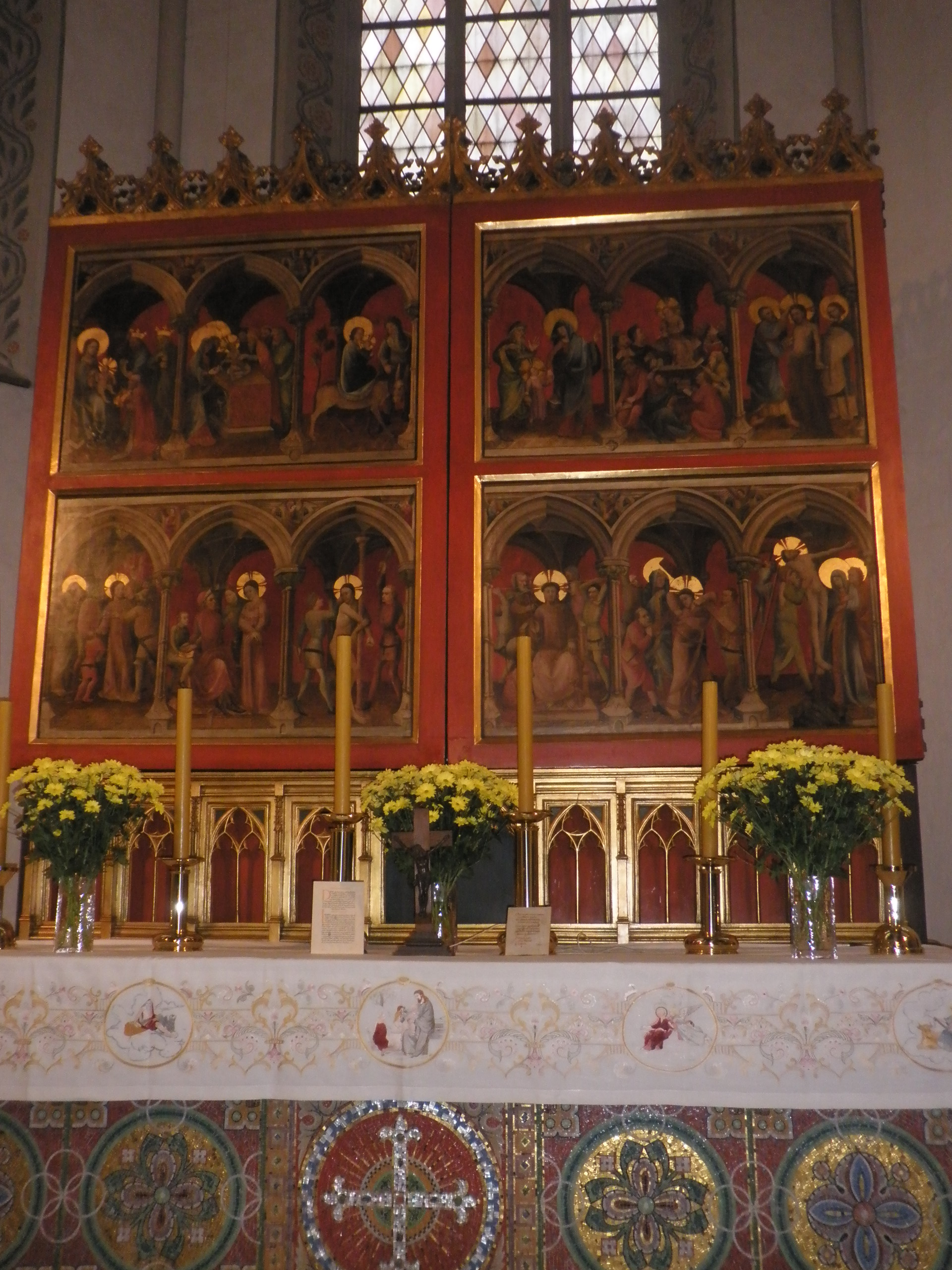 Gothic altar (closed) in former franciscan church in Brunswick